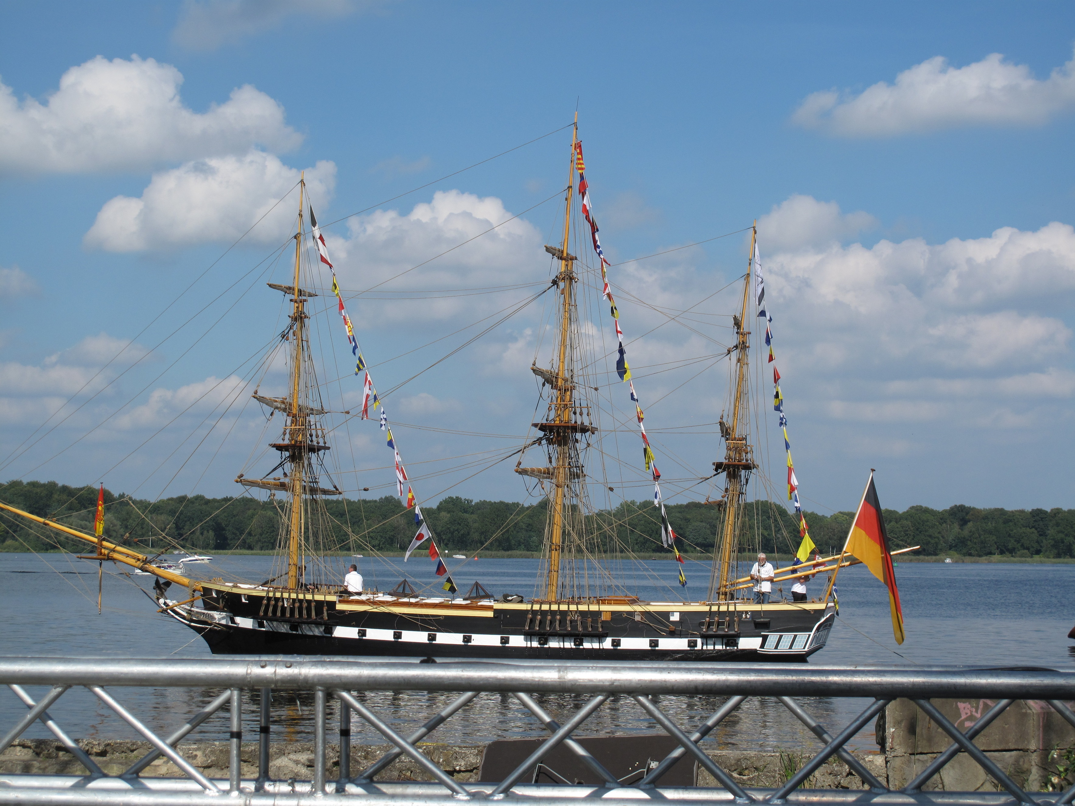 Ship new „Royal Luise“. Base laying ceremony for the reconstruction of the former welcoming pavilion „Vente-Halle“ of the Matrosenstation Kongsnæs (sailors station Kongsnæs) on 11th September 2010 in Potsdam, Brandenburg, Germany.